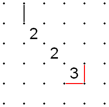 Illustrates a Slitherlink rule, for use on the Slitherlink page